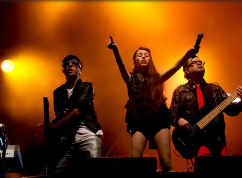 belanova in concert